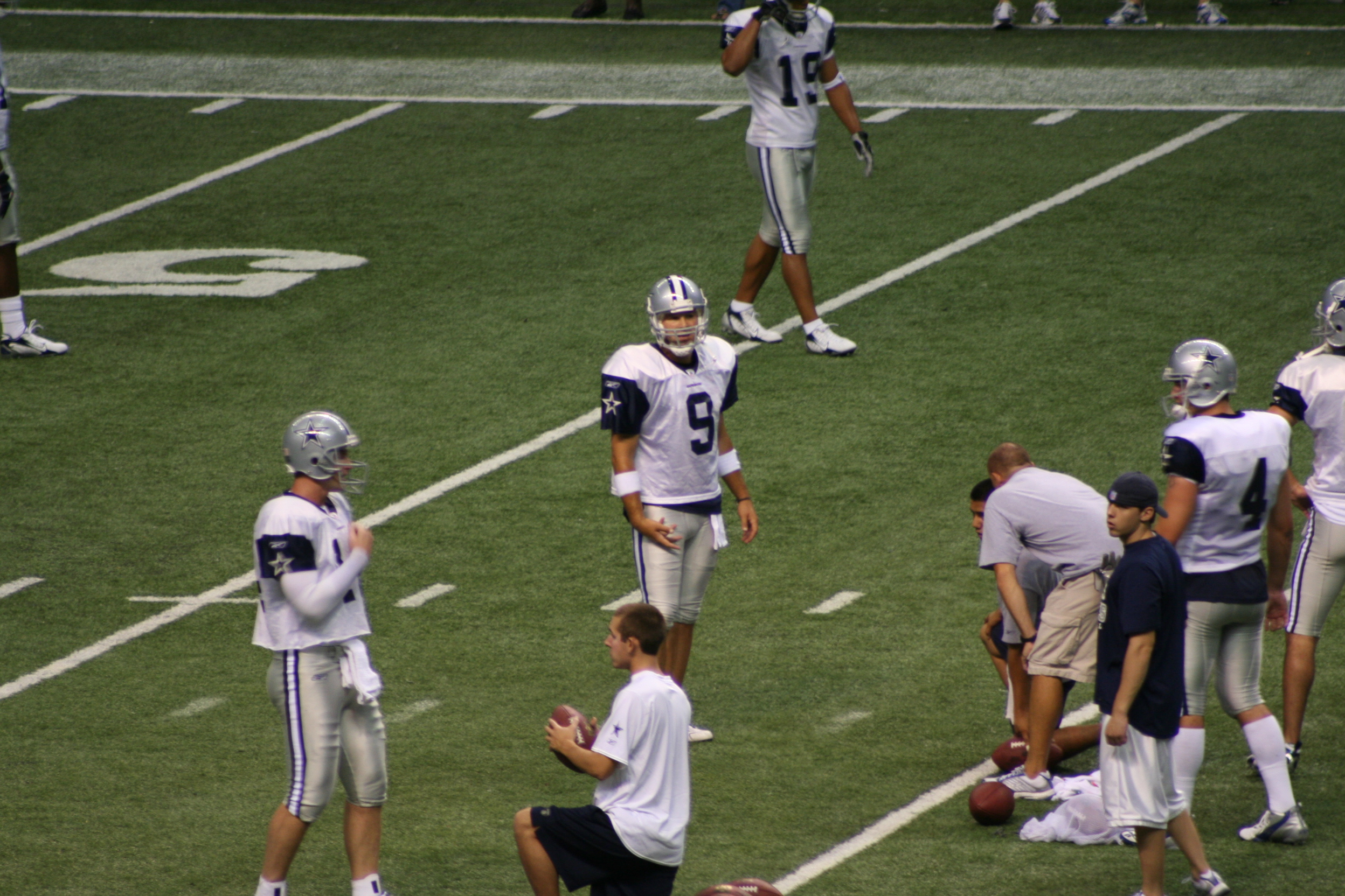 Tony Romo (en) and other players at a Dallas Cowboys (en) training camp in 2007.